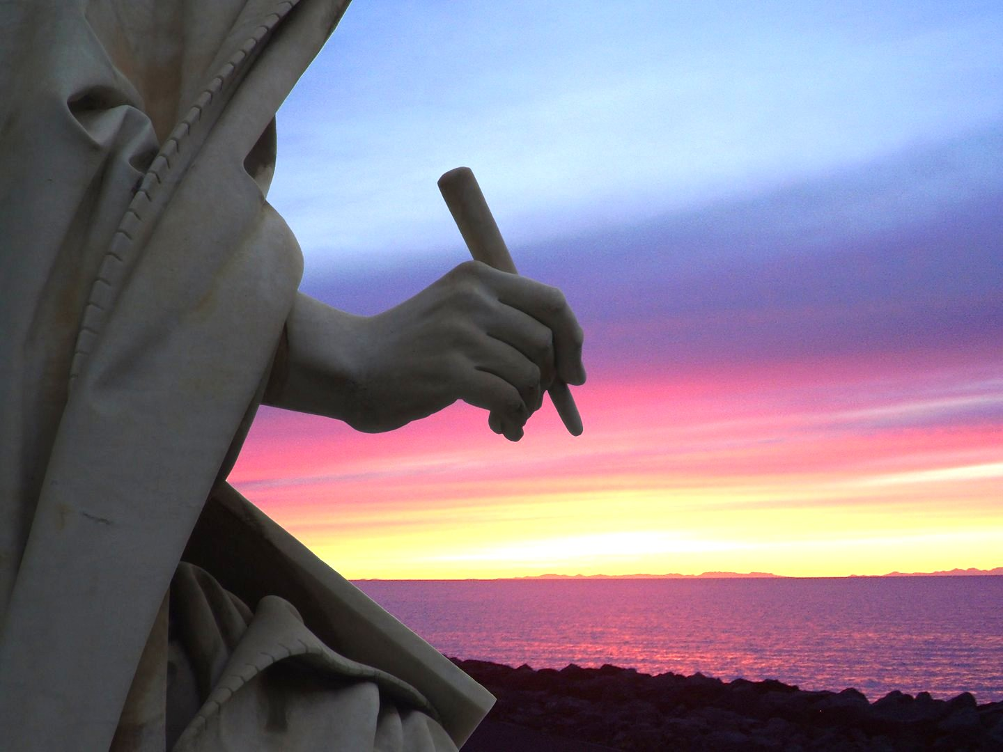 To see more Piazza di Spagna In the Piazza at the base is the Early Baroque fountain called Fontana della Barcaccia ("Fountain of the Old Boat"), built in 1627-29 and often credited to Pietro Bernini, father of a more famous son, Gian Lorenzo Bernini, who is recently said to have collaborated on the decoration. The elder Bernini had been the pope's architect for the Acqua Vergine, since 1623. According to an unlikely legend, Pope Urban VIII had the fountain installed after he had been impressed by a boat brought here by a flood of the Tiber river. In the piazza, at the corner on the right as one begins to climb the steps, is the house where English poet John Keats lived and died in 1821; it is now a museum dedicated to his memory, full of memorabilia of the English Romantic generation. On the same right side stands the 15th century former cardinal Lorenzo Cybo de Mari's palace, now Ferrari di Valbona, a building altered in 1936 to designs by Marcello Piacentini, the main city planner during Fascism, with modern terraces perfectly in harmony with the surrounding baroque context. At the top the Viale ramps up the Pincio which is the Pincian Hill, omitted, like the Janiculum, from the classic Seven hills of Rome. From the top of the steps the Villa Medici can be reached. fly roma rome rom lazio spqr italy italia statue church nature city citta street light landscape achitecture building monument history free europe europa people girls wallpaper castielli vacation holliday holiday trip art high religion catholic